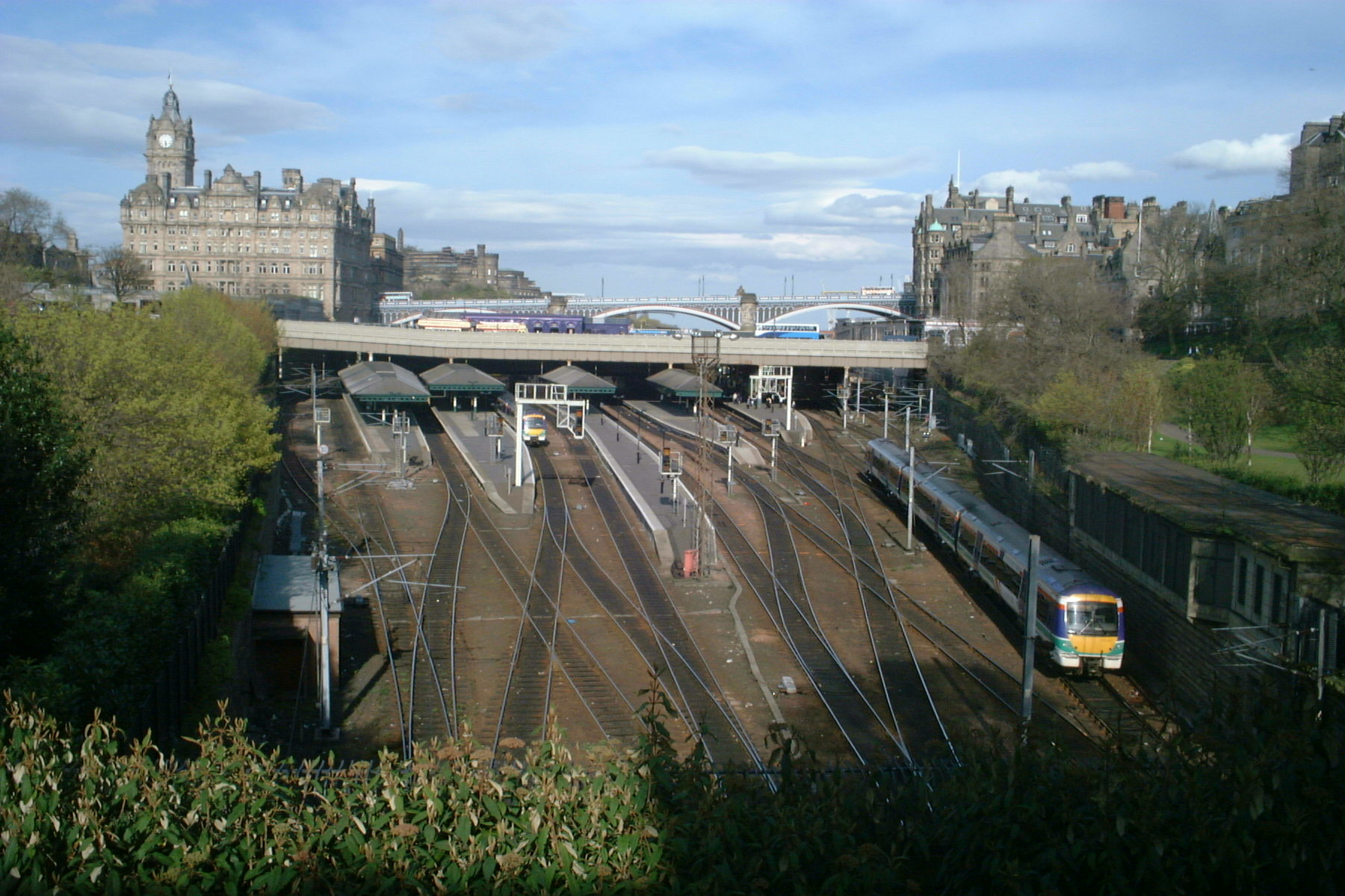 Own photo, Edinburgh Waverley station seen from The Mound.